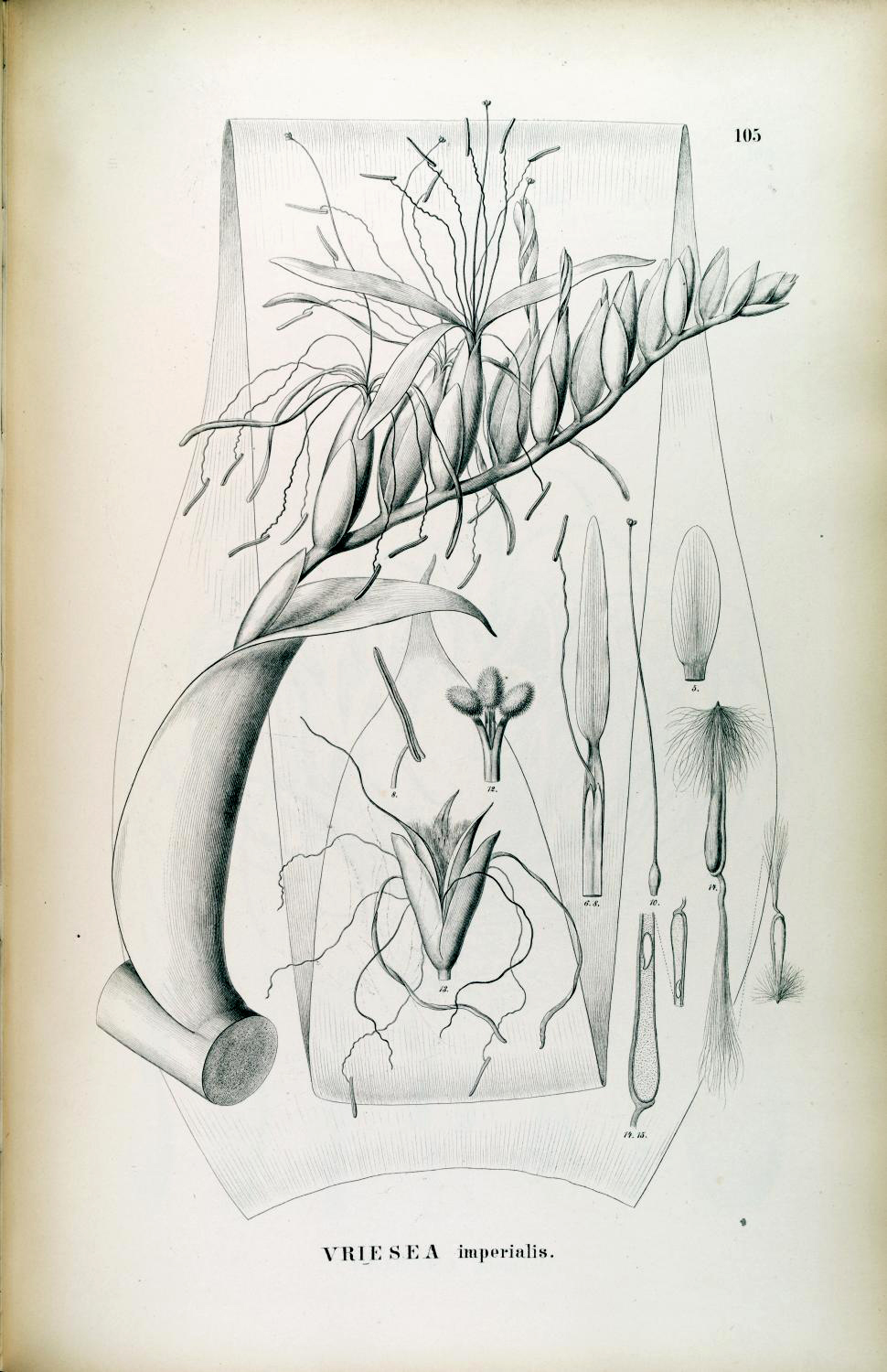 Illustration of Vriesea_imperialis